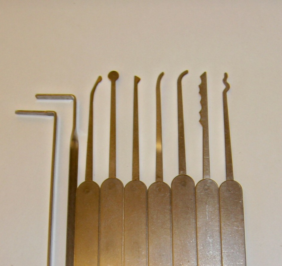 A set of Lockpicks, The two tools on the left are Tension Wrenches